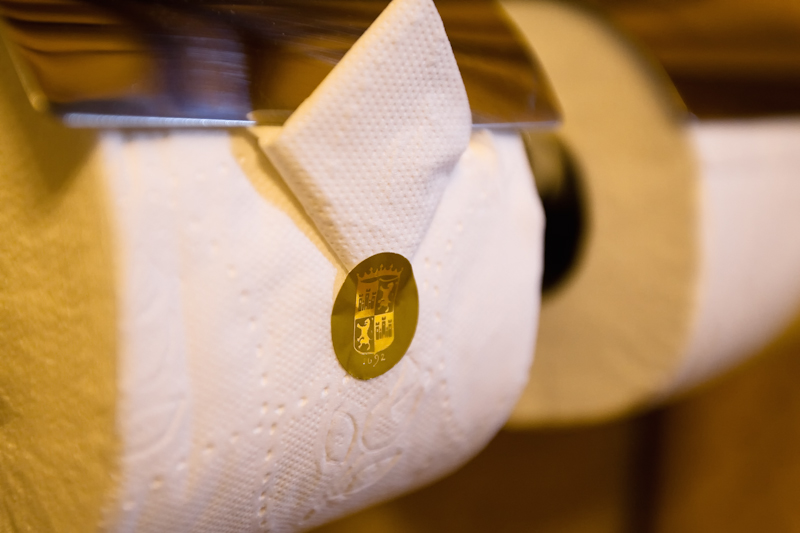 Cusco's finest hotel, the Hotel Monasterio, pays attention to even the finest of details. Each of the toilet rolls was creatively folded and gold sealed. Peru. Camera Model: Canon 30D Lens Model: Canon EF 16-35mm f/2.8 L USM Lens Aperture: f/3.2 Focal Length: 35mm